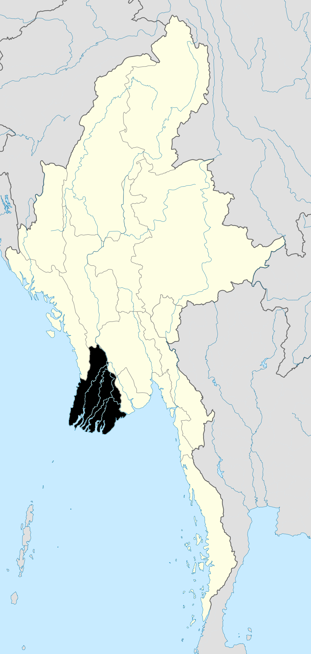 Map showing Ayeyarwady in Burma